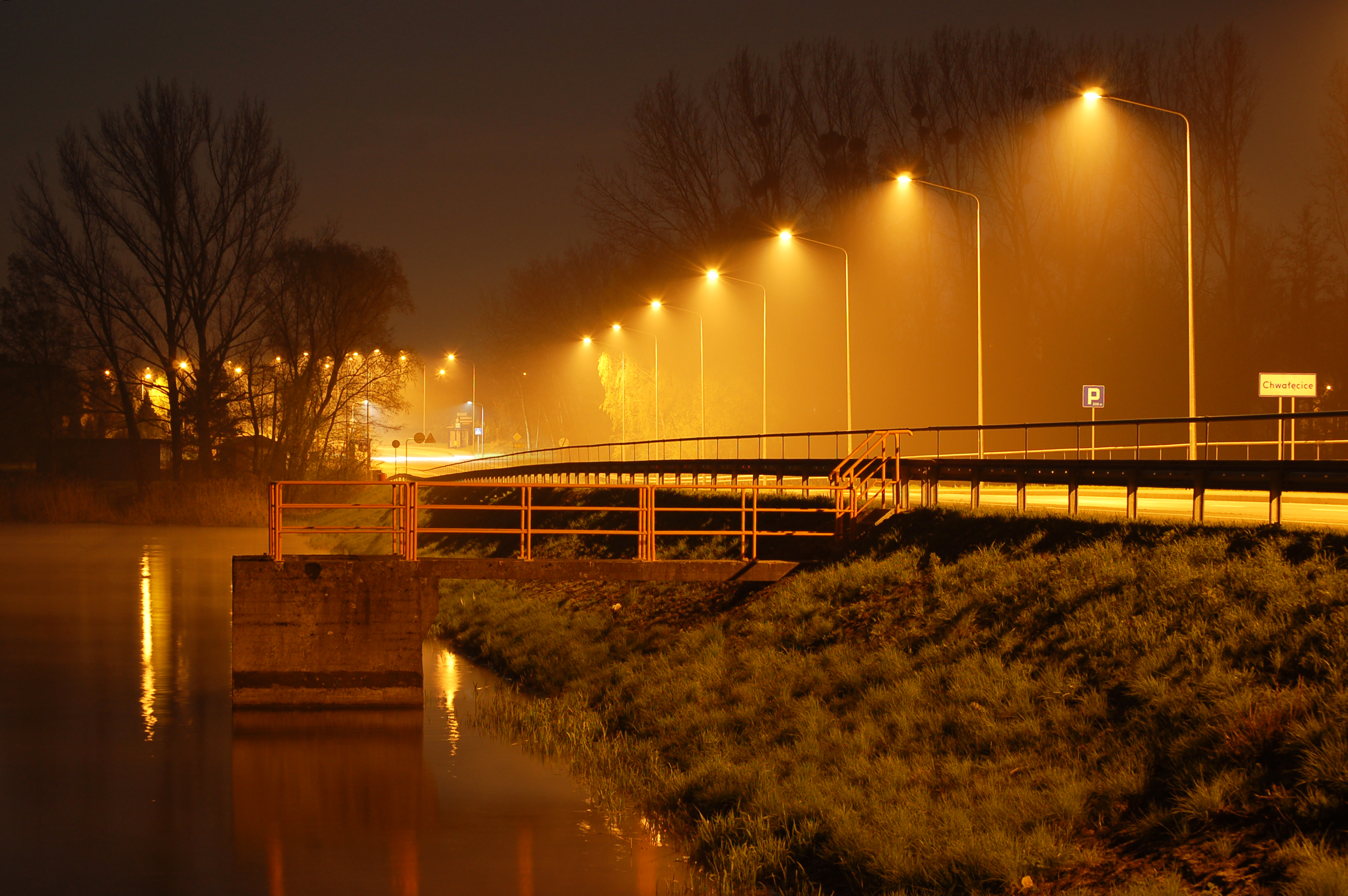 Chwalecice - district of Rybnik